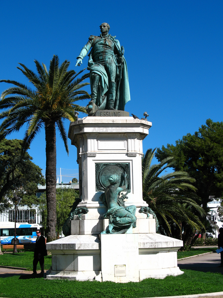 Albert-Ernest Carrier-Belleuse: Statue of André Masséna (1869), Jardin Masséna, Nice, France.